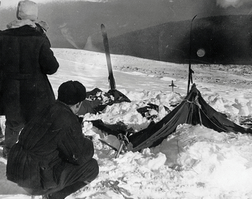 A view of the tent as the rescuers found it on Feb. 26, 1959. The tent had been cut open from inside, and most of the skiers had fled in socks or barefoot. Photo taken by soviet authorities at the camp of the Dyatlov Pass incident and anexed to the legal inquest that investigated the deaths.